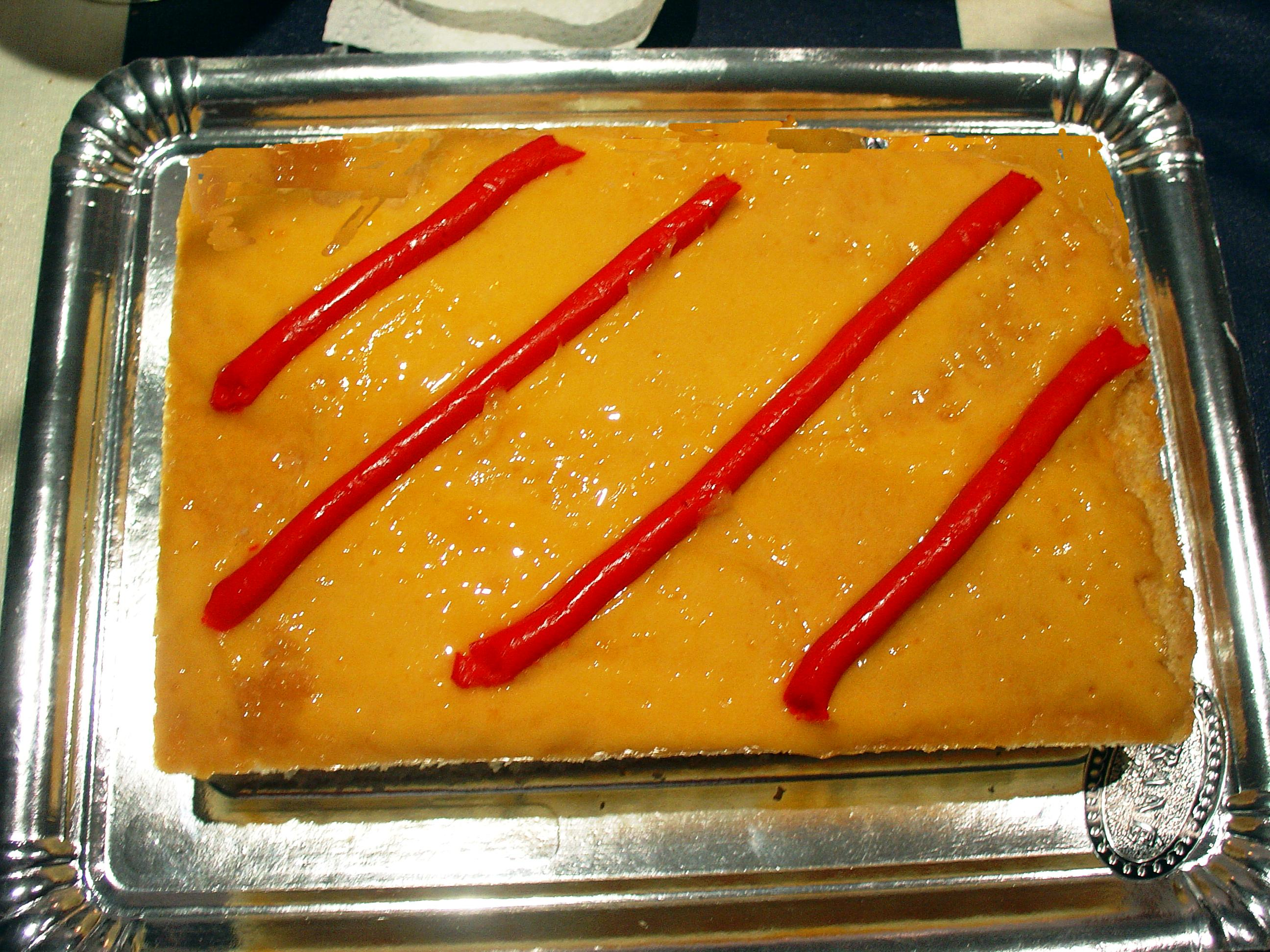 St.Jordi's cake